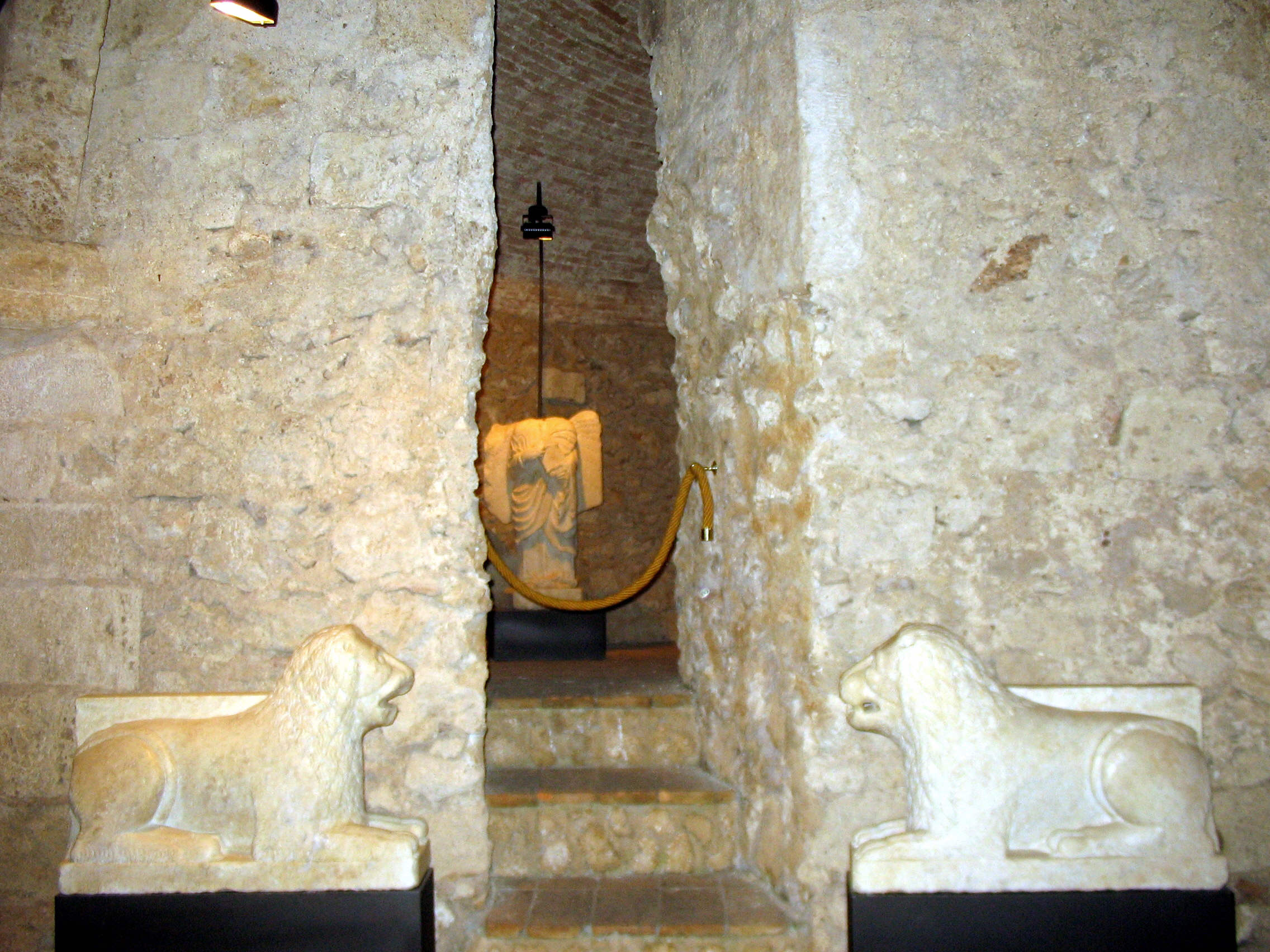 Museo Diocesiano - Rieti, Lazio, Italia